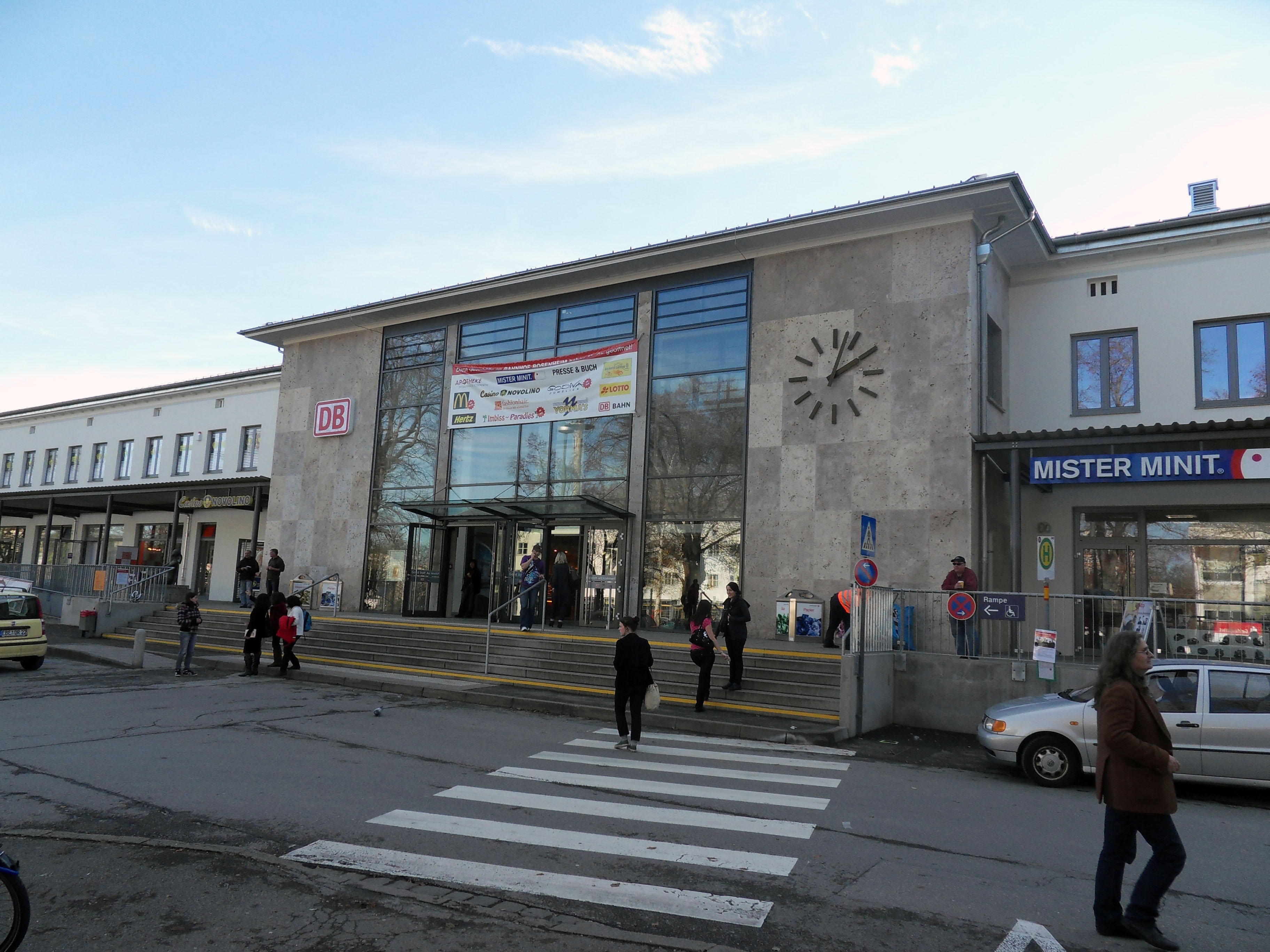 Train Station Rosenheim